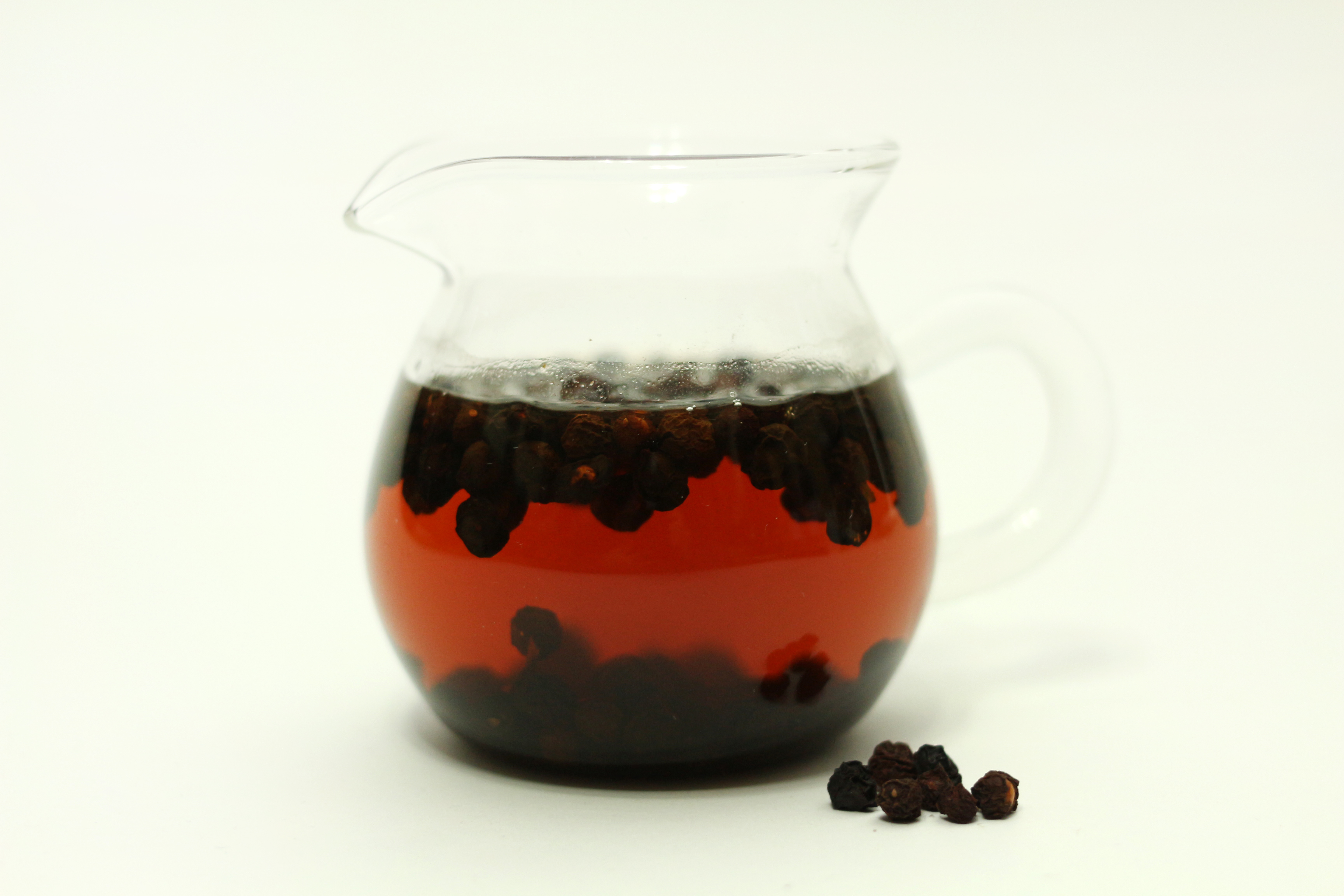 five-flavour berry tea